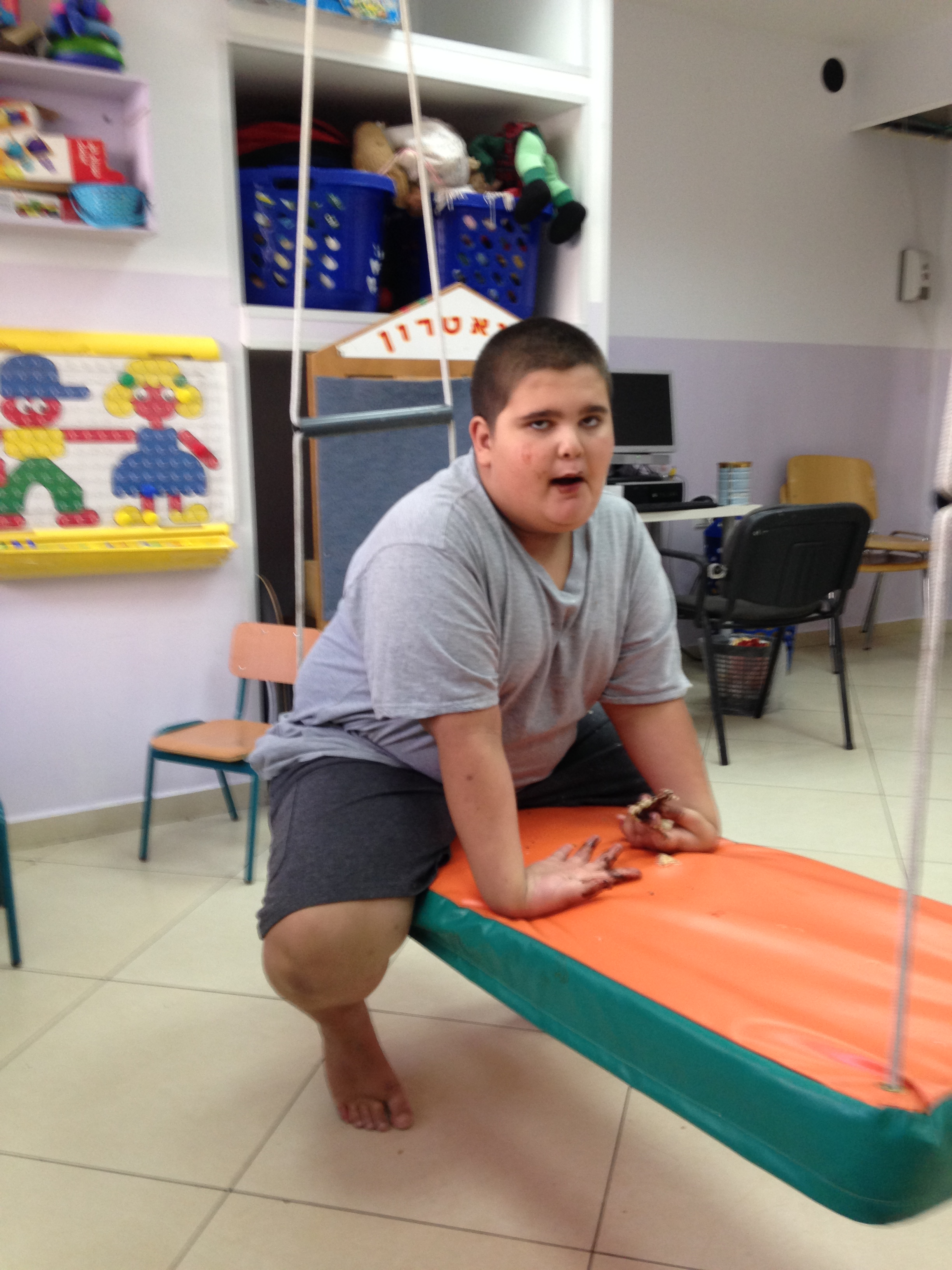 Swing Occupational Therapy